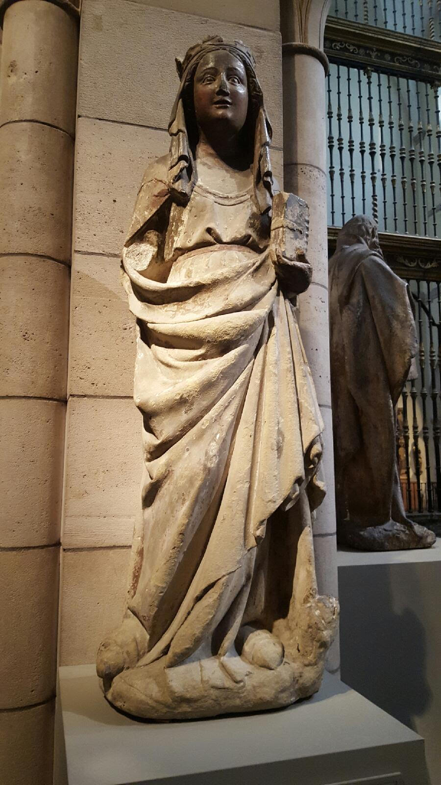 Saint Margaret stands upon her emblem, a dragon.